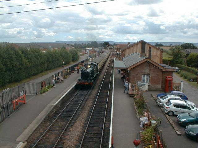 Bishops Lydeard Station, West Somerset Railway. From the road bridge.